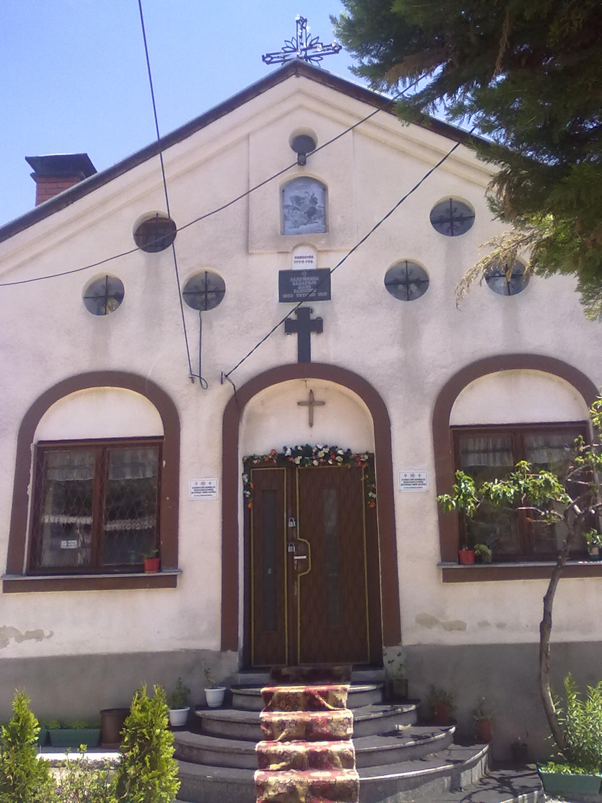 Sts. Demetrius Church in Tetovo, Macedonia